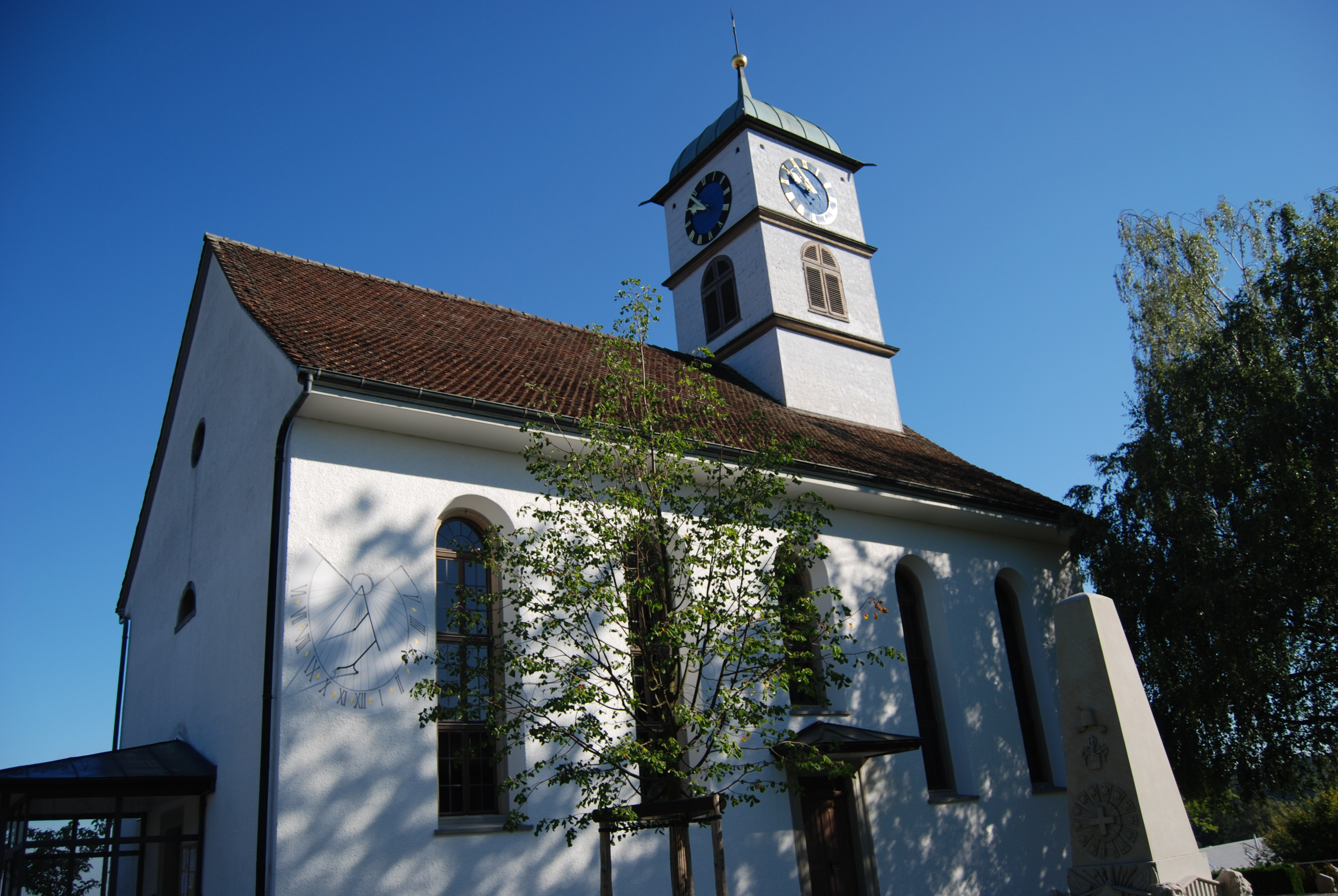 Church of Henggart, canton of Zürich, SwitzerlandEsperanto: Preĝejo de Henggart, Kantono Zürich, Svislando